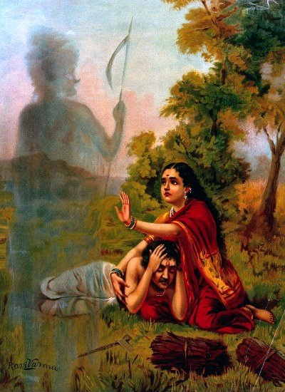 Chromolithograph by R. Varma